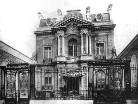 The Adela Unzué de Leloir Residence, today the Círculo Italiano, Buenos Aires.